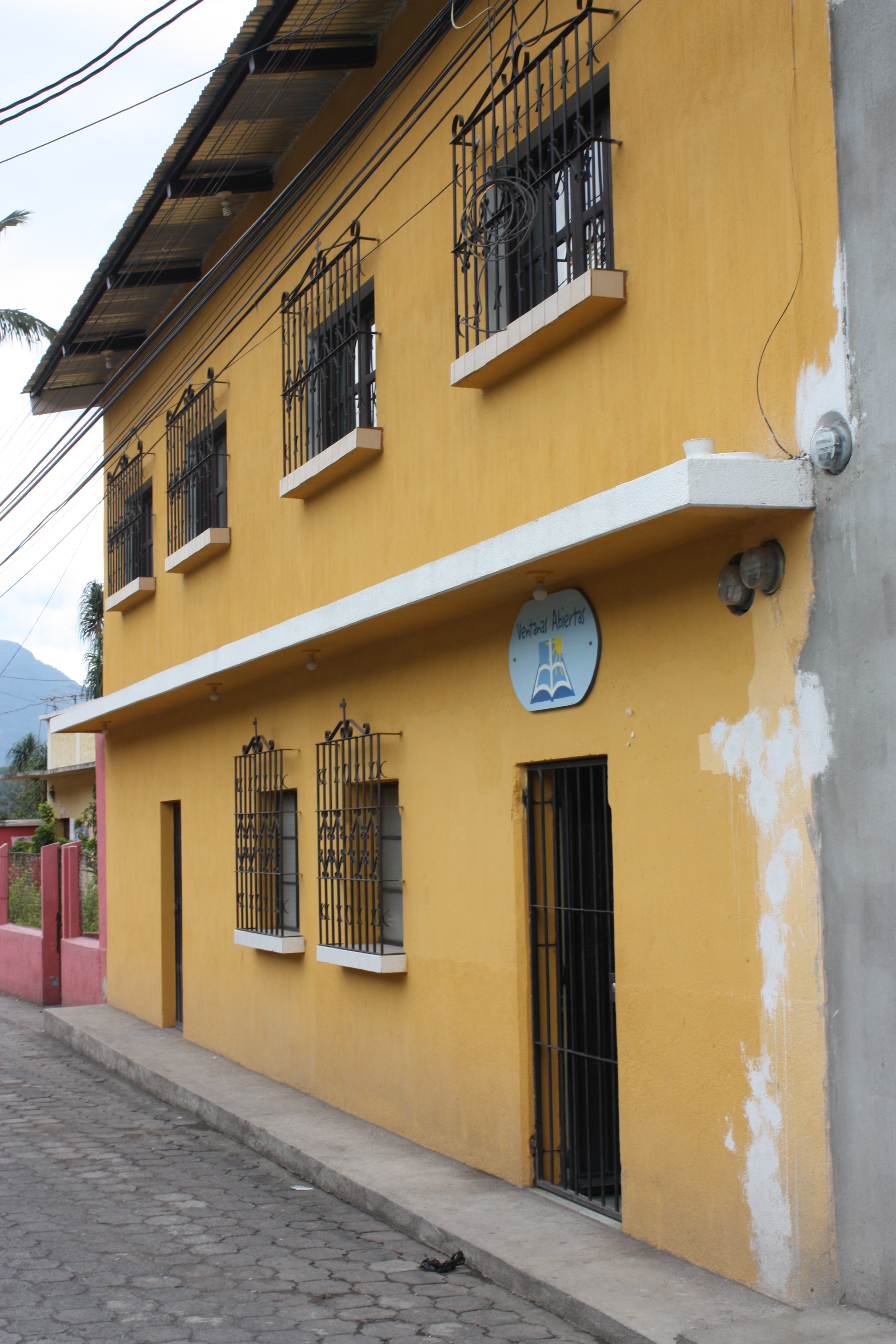 Street view of Open Windows Foundation, San Miguel Dueñas, Guatemala.